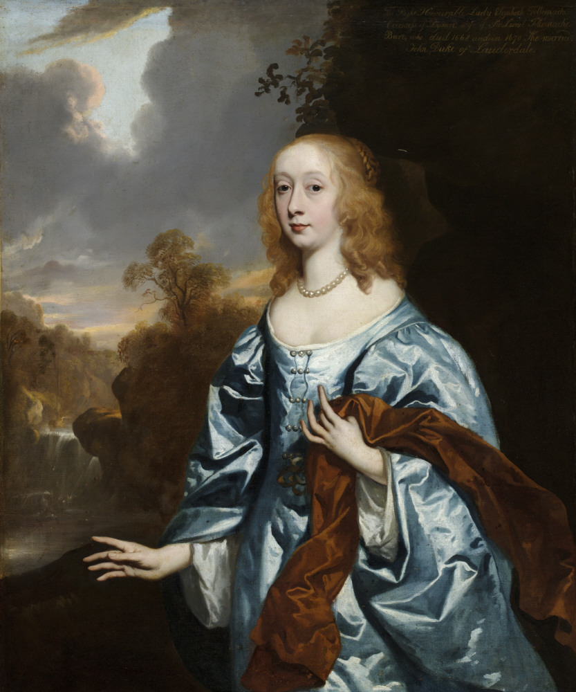 Elizabeth Maitland, Duchess of Lauderdale